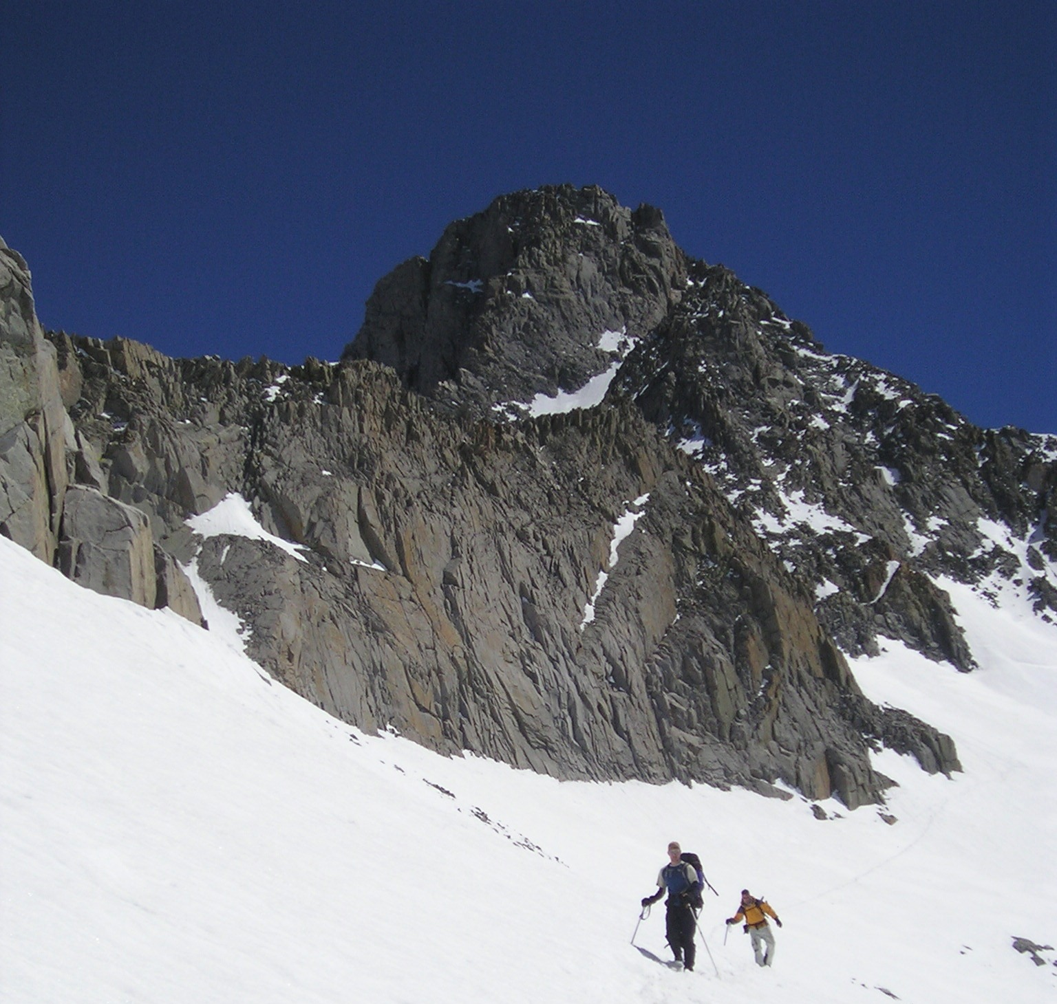 Two climbers moving down the snow fields below Mount Sill, Sierra Nevada, California, United StatesMt. Sill Descent